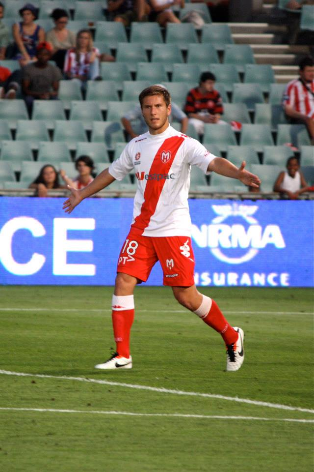 David Vrankovic playing for Melbourne Heart.